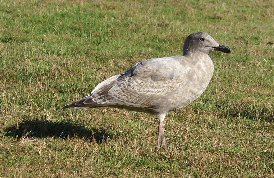 Orininally posted by parande